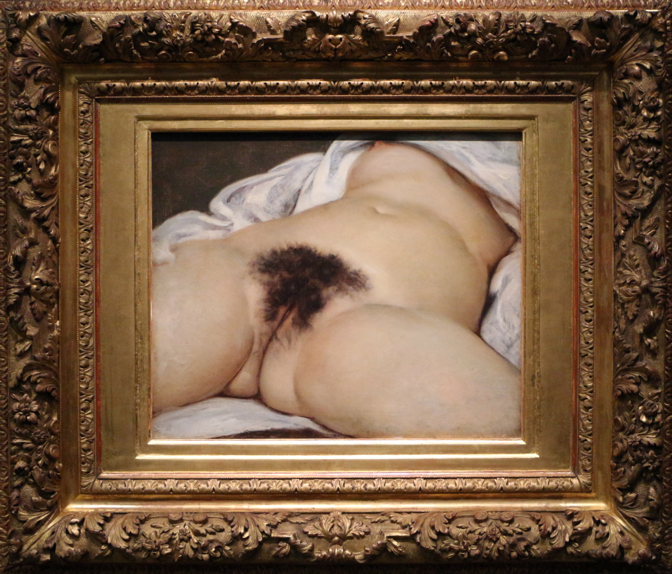 Paintings in Musée d'Orsay